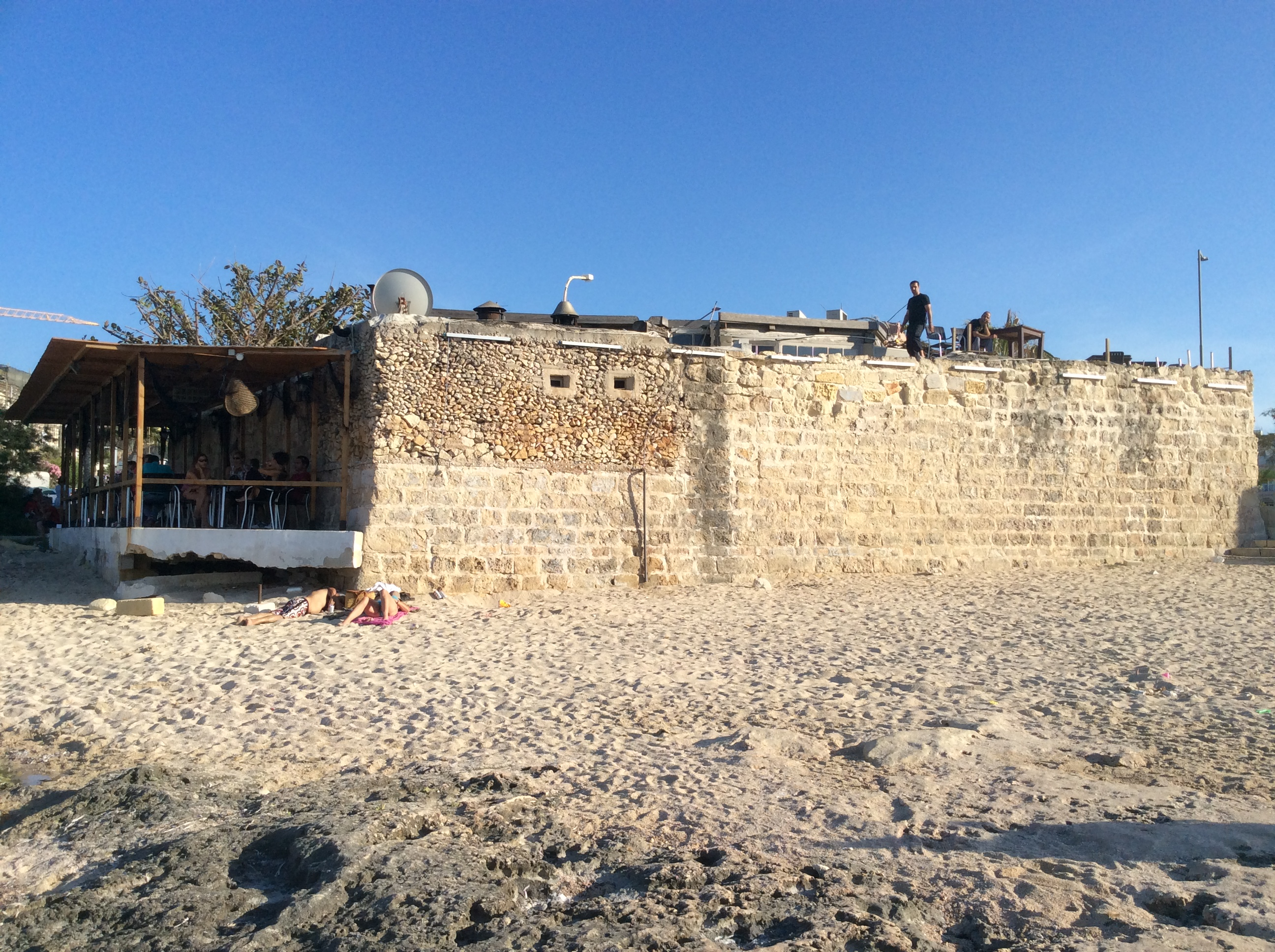 Bahar ic-Caghaq in 2017